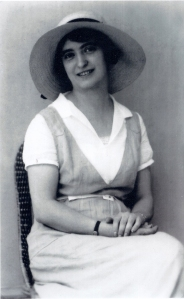 Lela Karayanni (1898-1944), Heroine of Greek Resistance" in her younger years